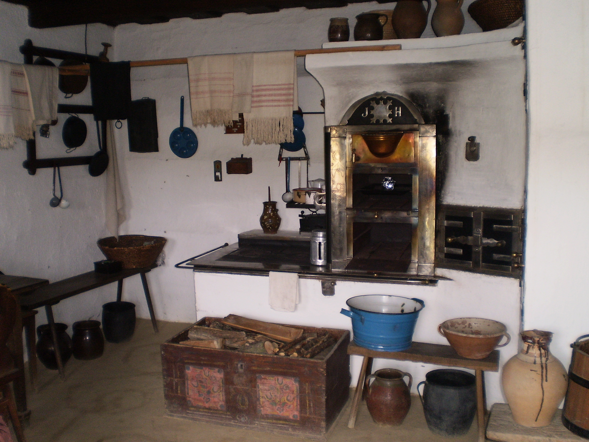 Kitchen